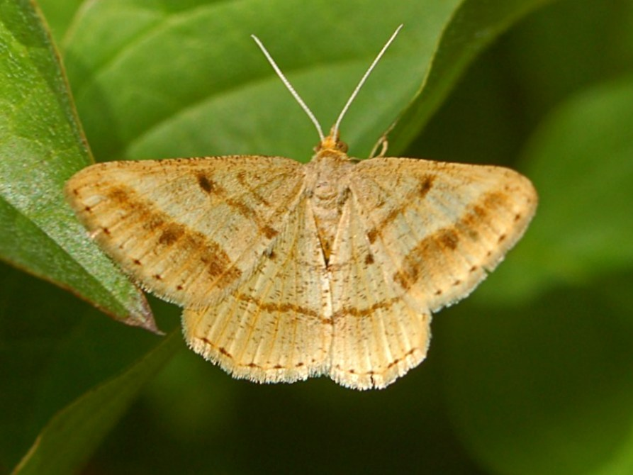 Isturgia arenacearia. Cerreto Ratti, Alessandria, Genova